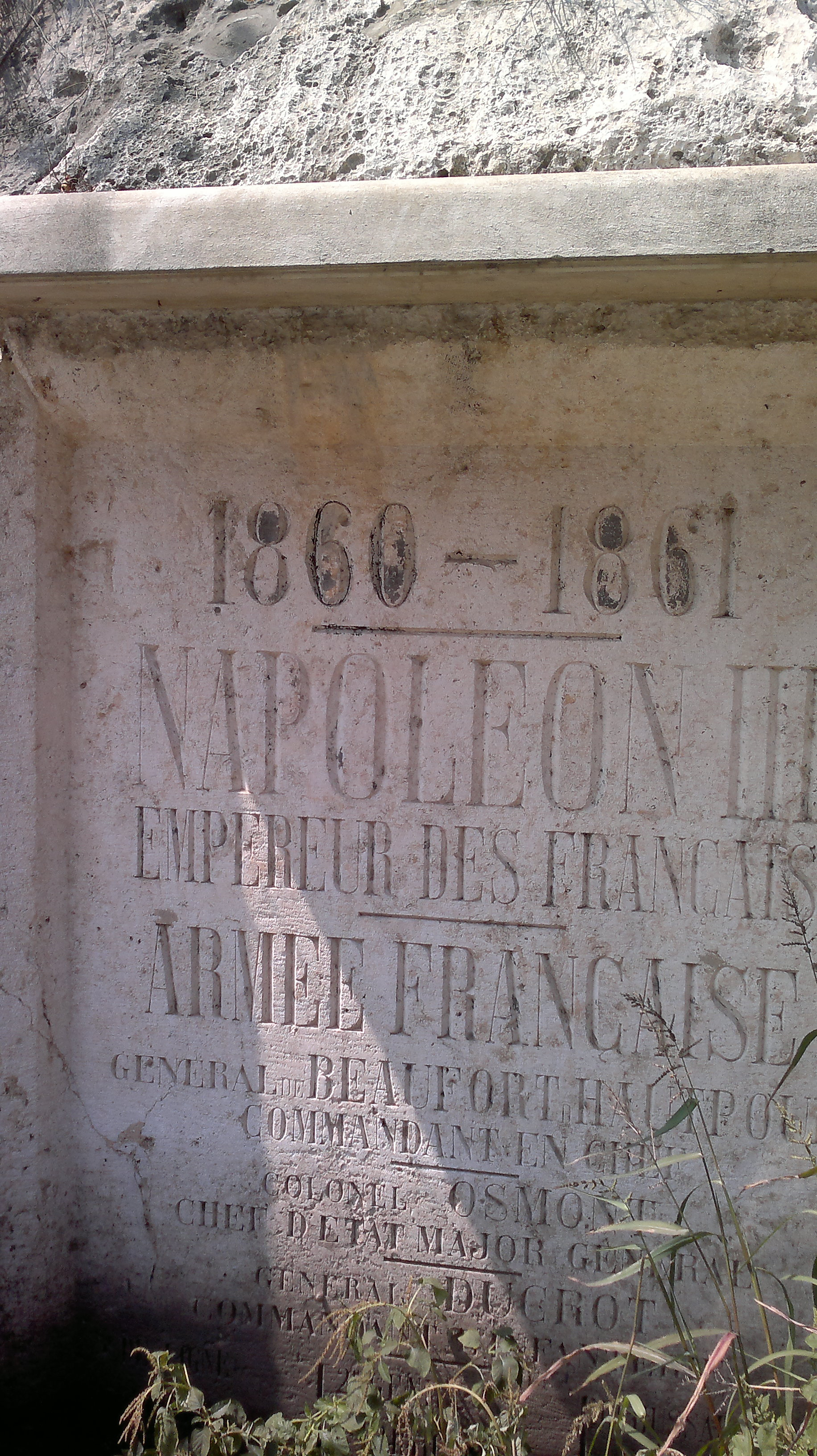 The Stela of Nahr el-Kalb showing French Mandate of Lebanon.